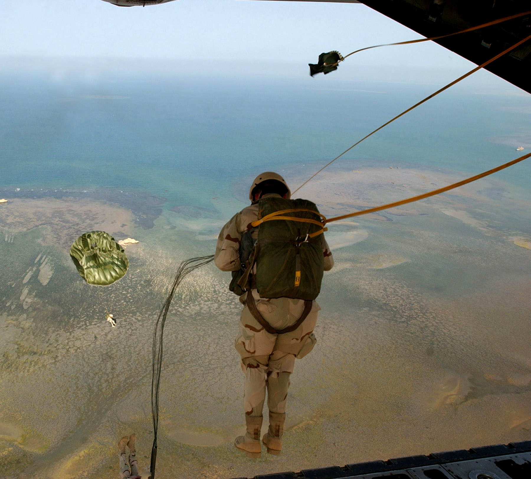 OVER AFRICA (AFPN) -- A pararescueman jumps from an HC-130 during a training mission recently. The Airman is from the 131st Rescue Squadron, which works hand in hand with the 449th Expeditionary Rescue Squadron. The training occurred while deployed in support of Combined Joint Task Force - Horn of Africa in Djibouti, Africa. (U.S. Air Force photo by 2d Lieutenant Shannon Collins)